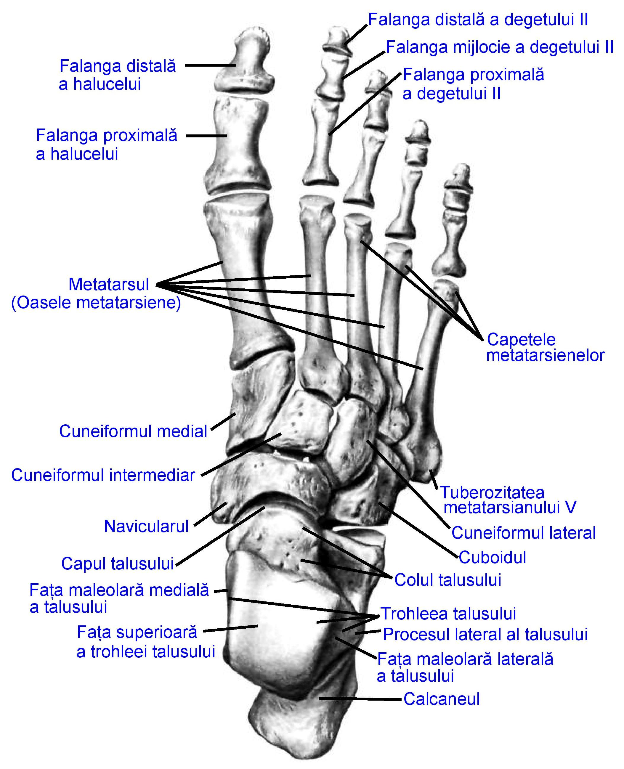 Tars, dorsal surface